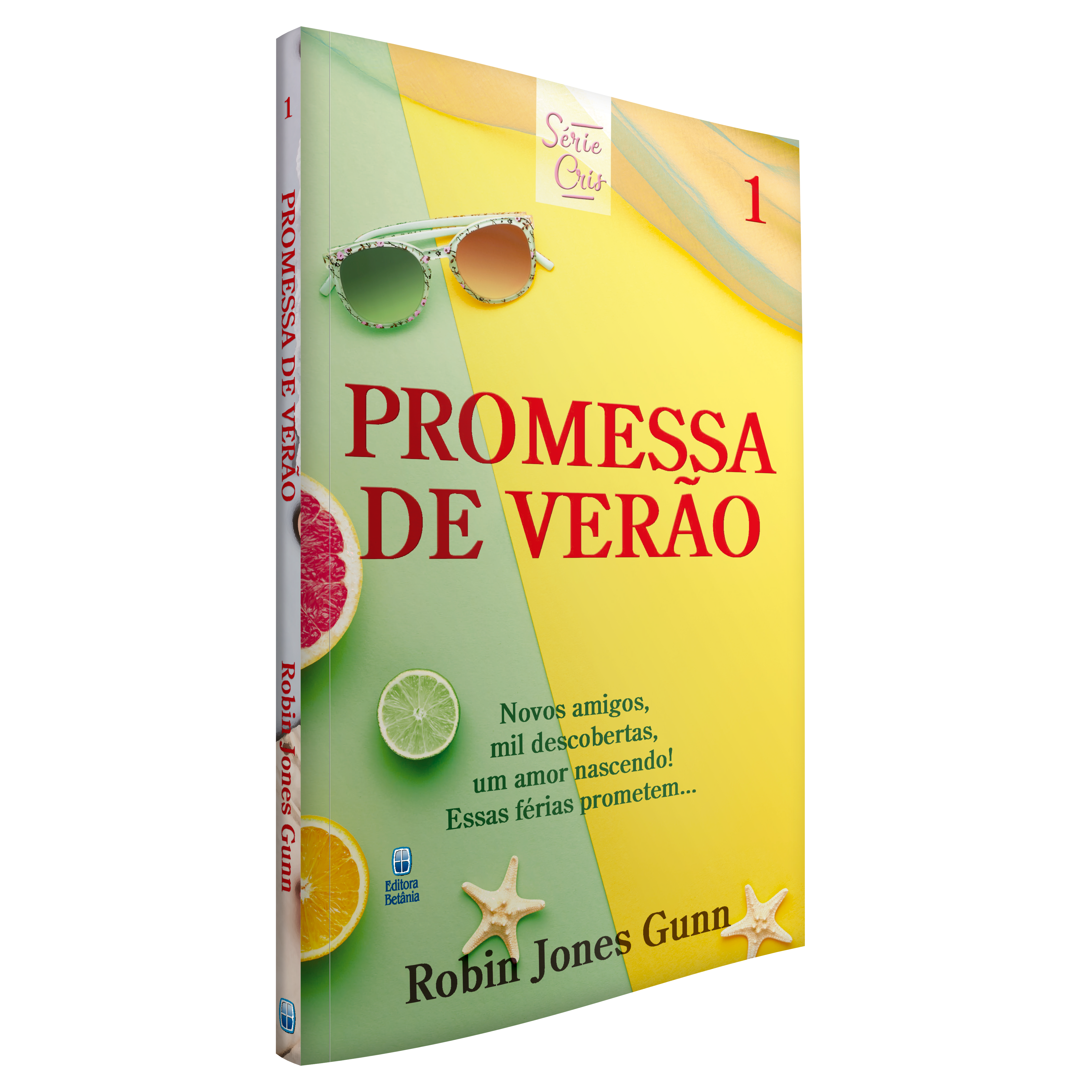 New cover of the portuguese version of ~Série Cris~.